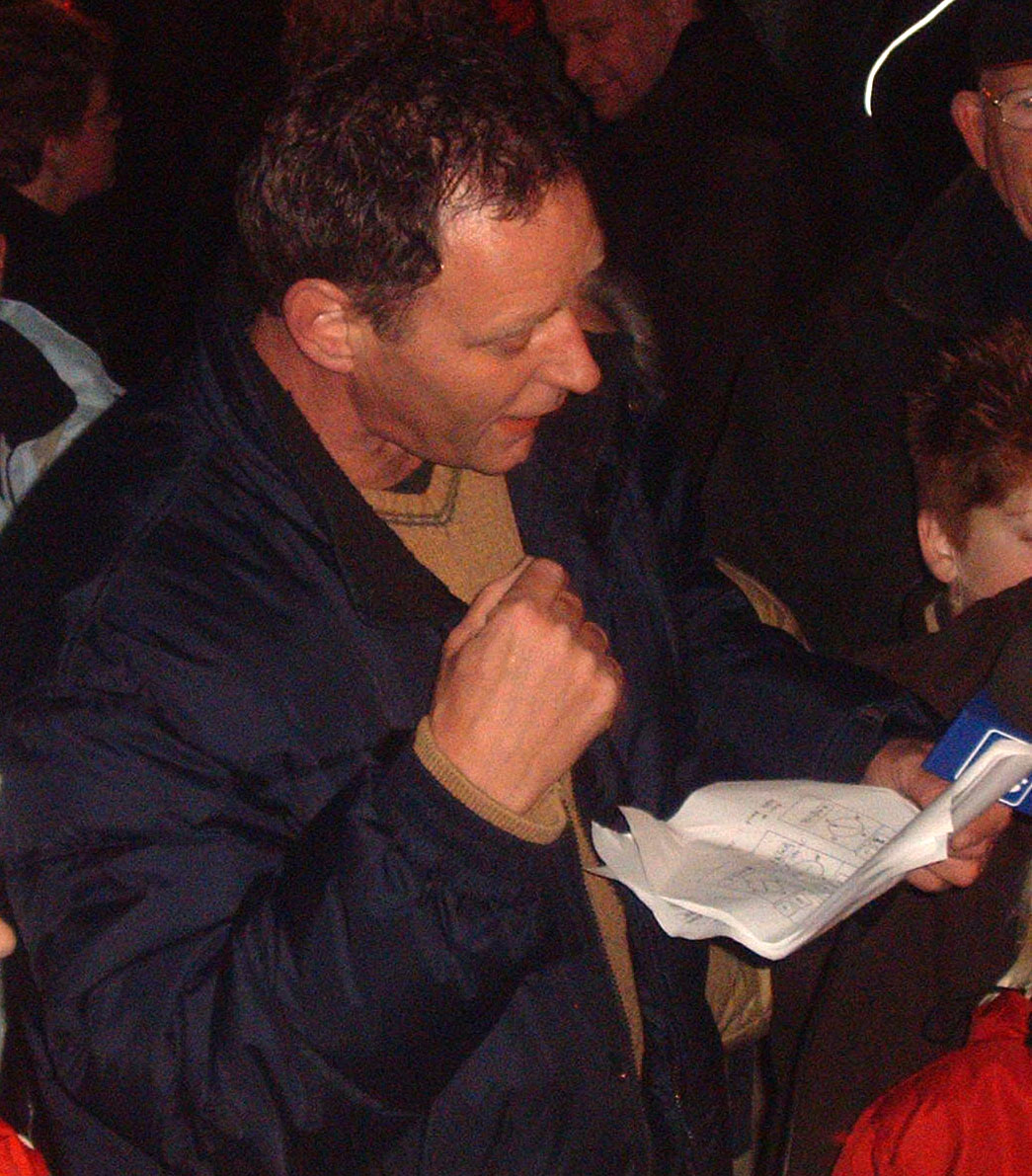 Own photograph of Dutch weatherman Piet Paulusma rehearsing his lines in the town of Joure (Friesland).